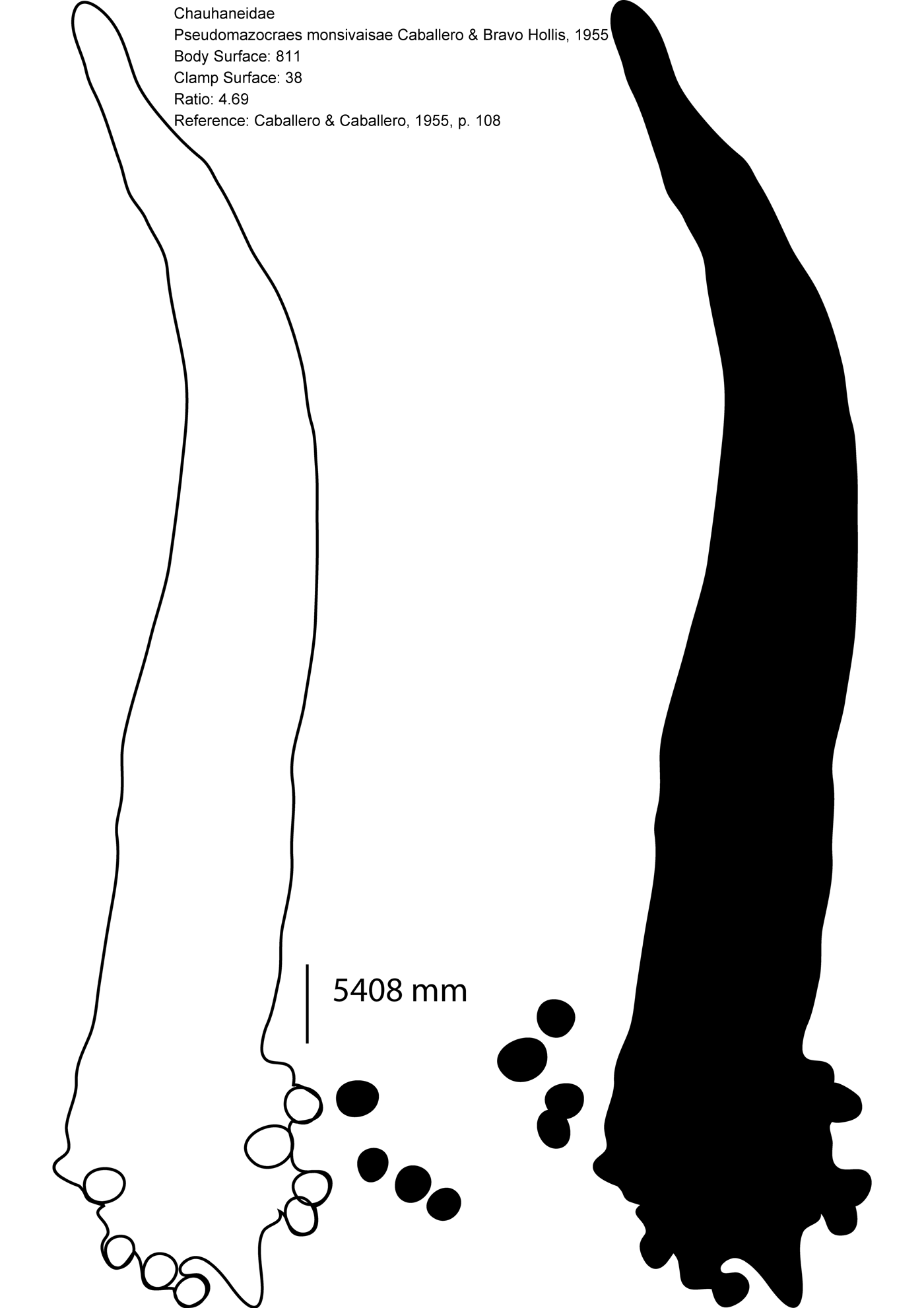 Pseudomazocraes monsivaisae Caballero & Bravo Hollis, 1955 (Chauhaneidae) Cropped from: Supporting Information file S1 PDF of all figures and measurements of clamp and body surfaces. Total number of figures: 120.